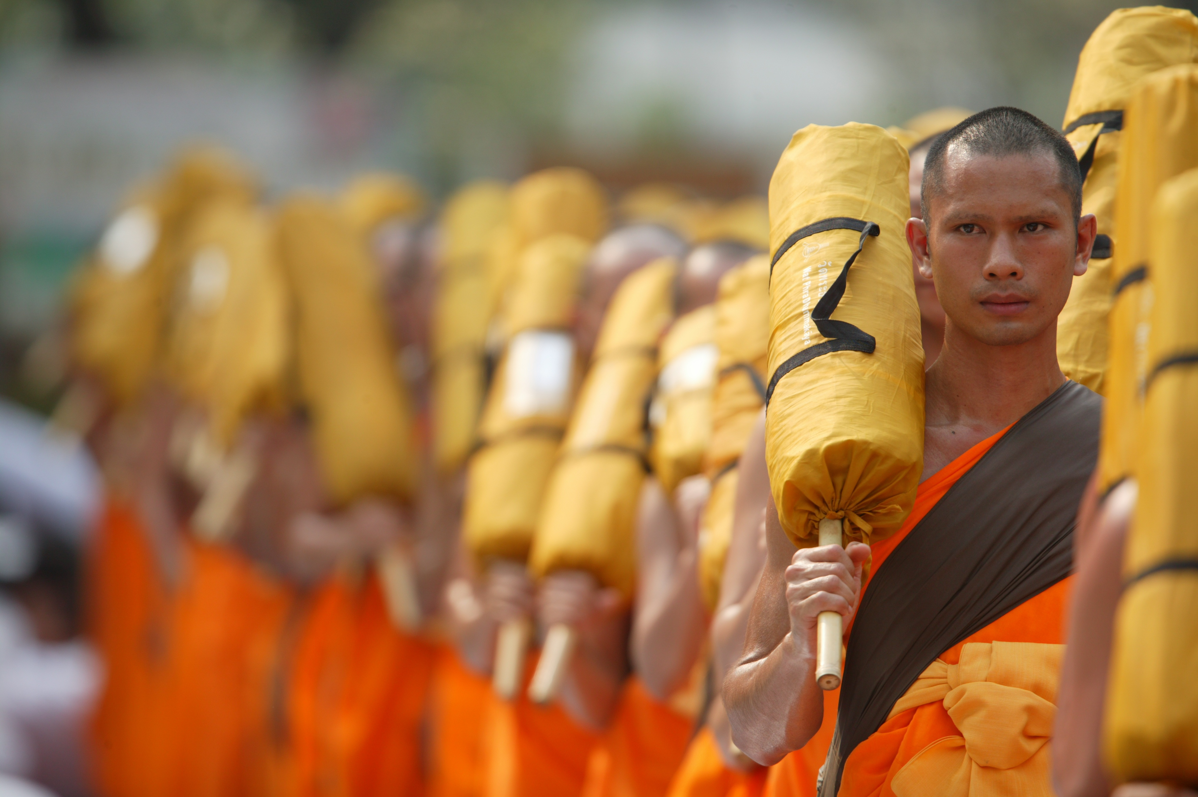 City pilgrimage organized by Wat Phra Dhammakaya